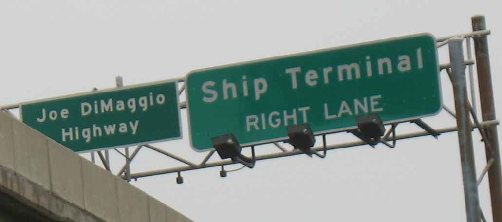 Joe DiMaggio Highway sign on northern edge of West Side Highway